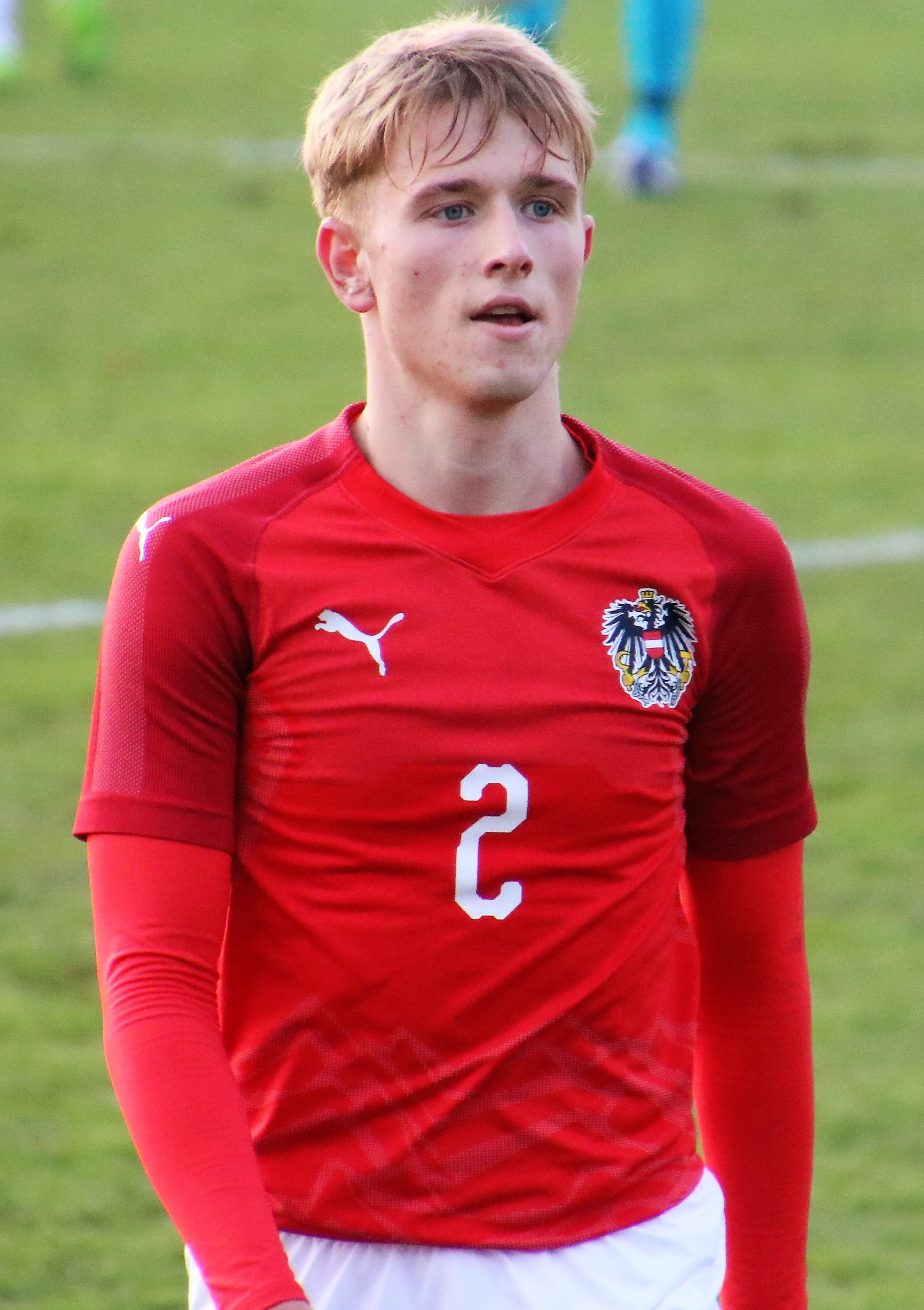 Euro Qualifying match